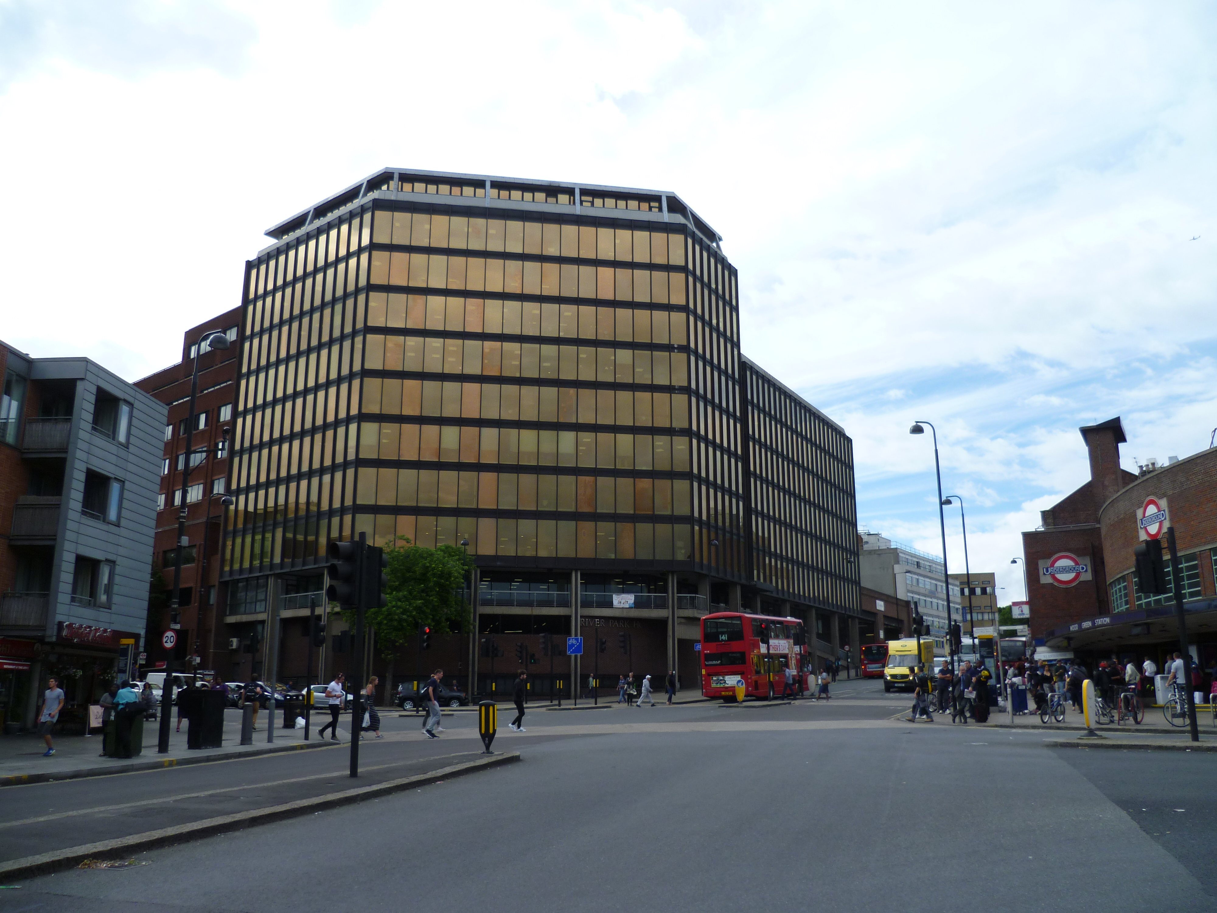 London